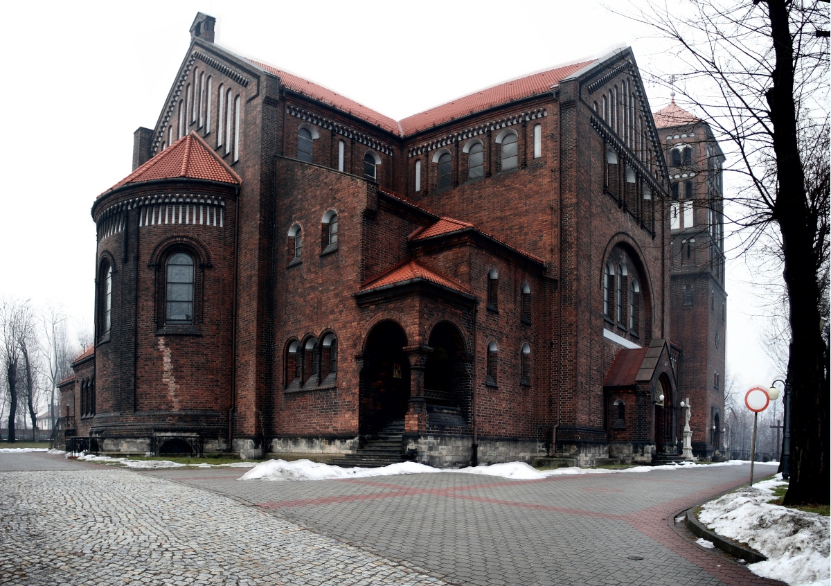 St. Joseph Church in Ruda Śląska (Silesia, Poland)